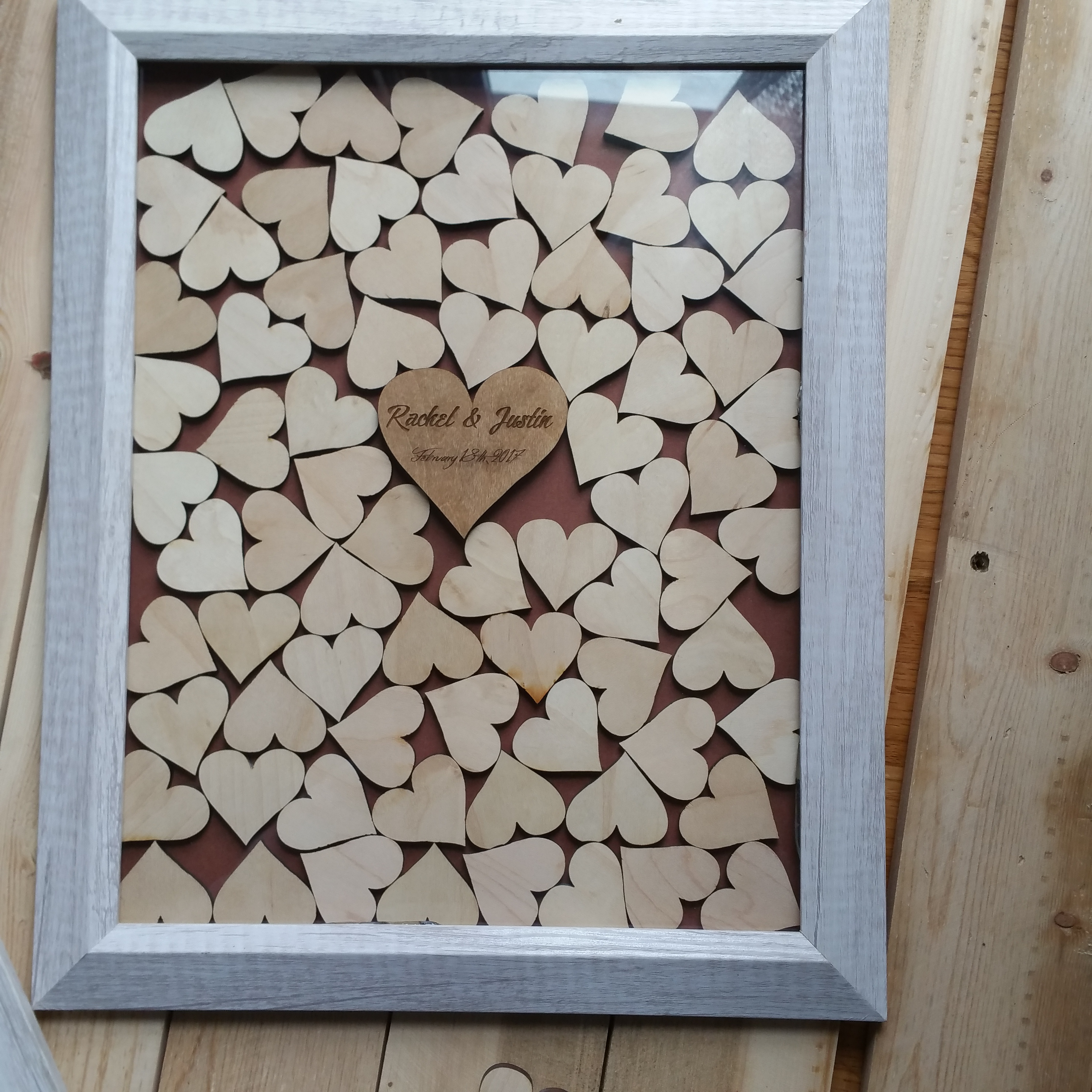 Drop Top Guest Book